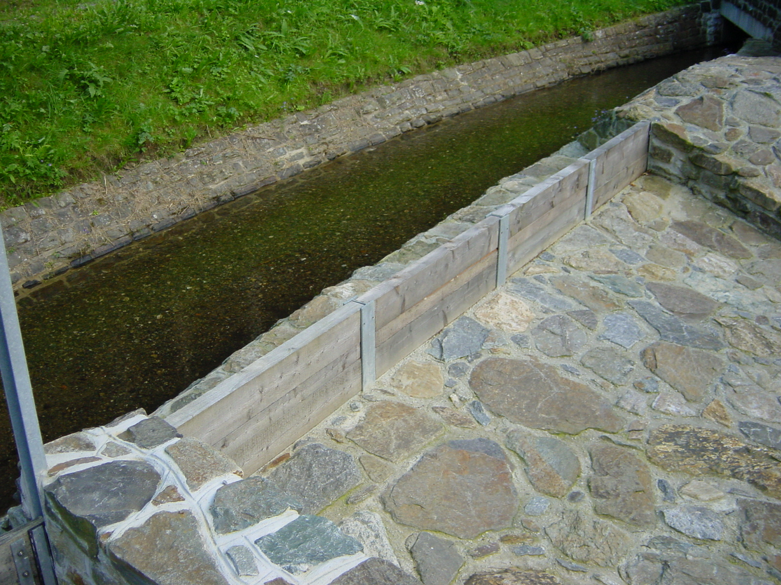 Stoplogs, somewhere in Germany